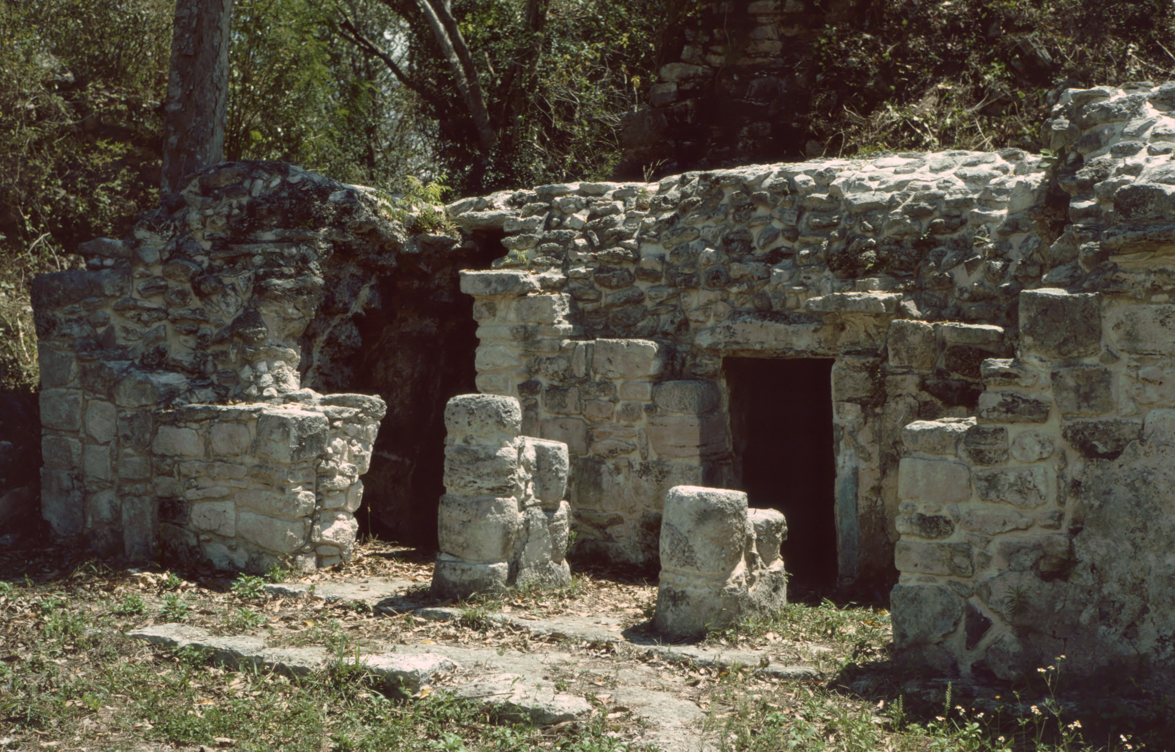 Muyil, Quintana Roo, Mexico: Postclassic building